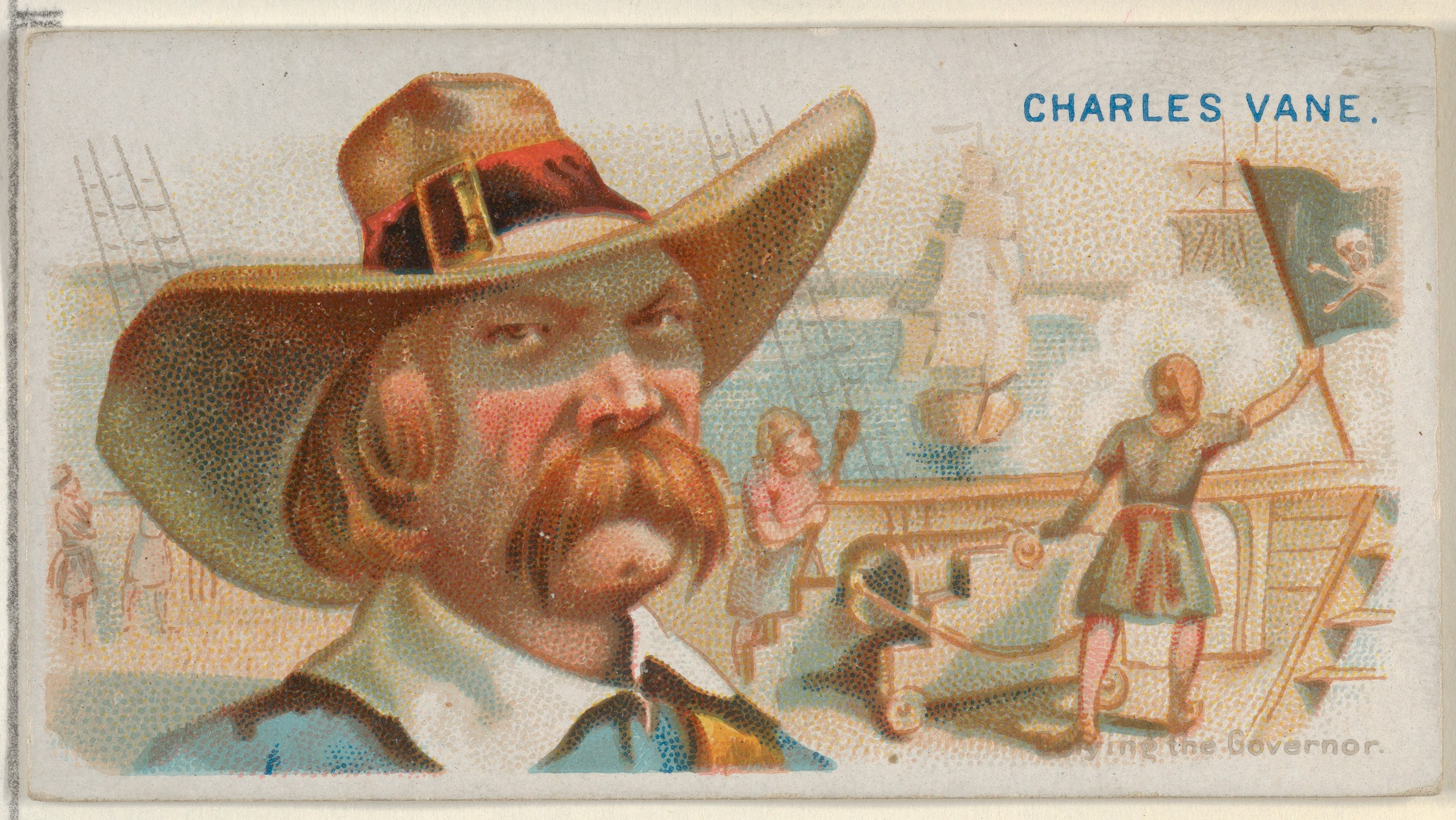 Print; Prints